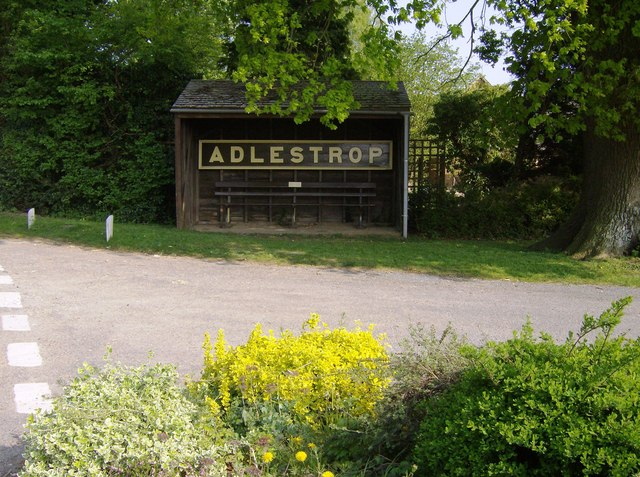 Adlestrop station sign in the bus shelter The sign is one of the old station signs. It was moved here after the station closed. The plaque on the bench contains the famous poem by Edward Thomas about Adlestrop. First line: "Yes, I remember Adlestrop. The train stopped there." Here is a link to the full poem. The former railway station is here: 451139